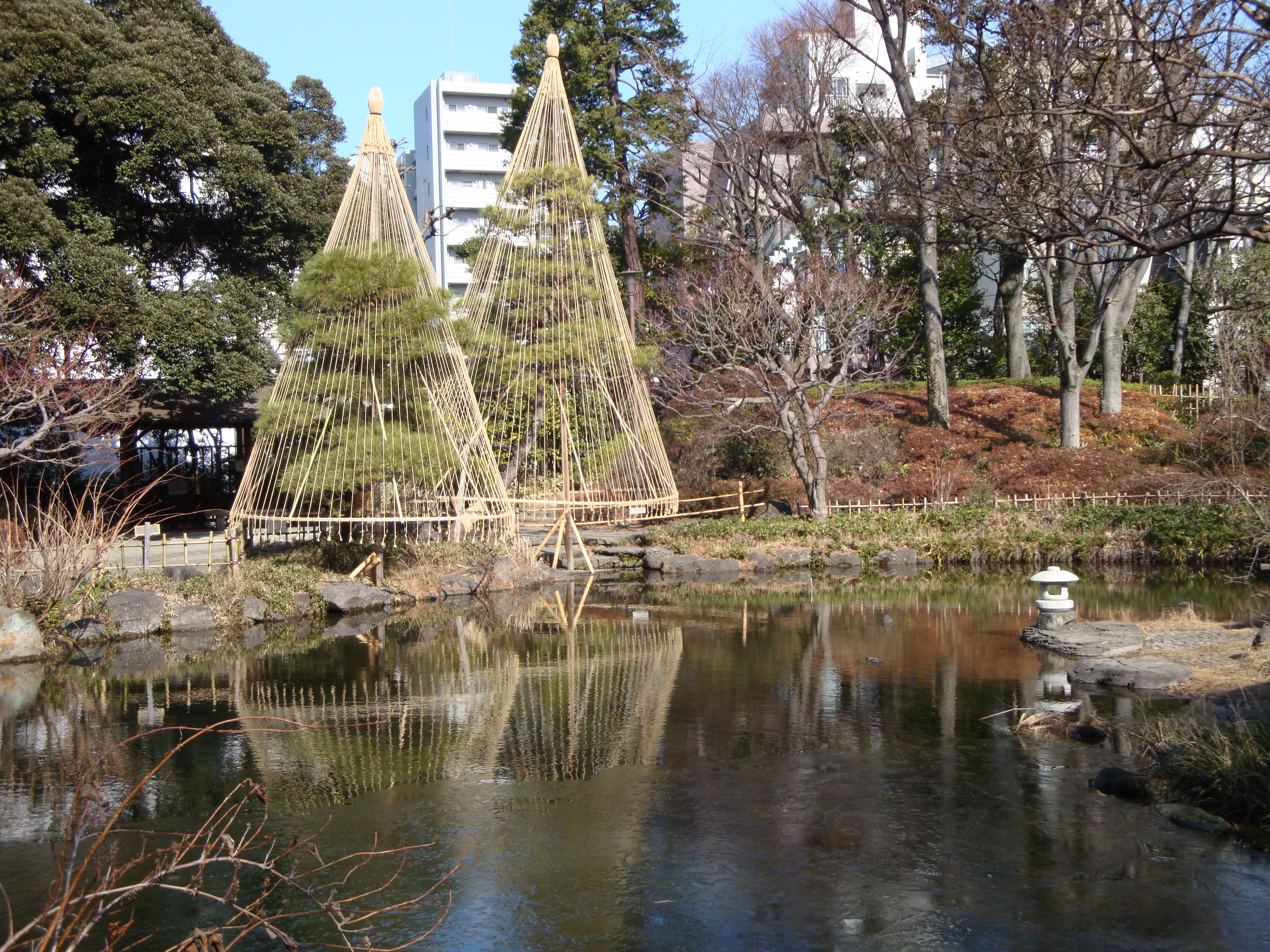 Kansenen Garden, Tokyo, Japan